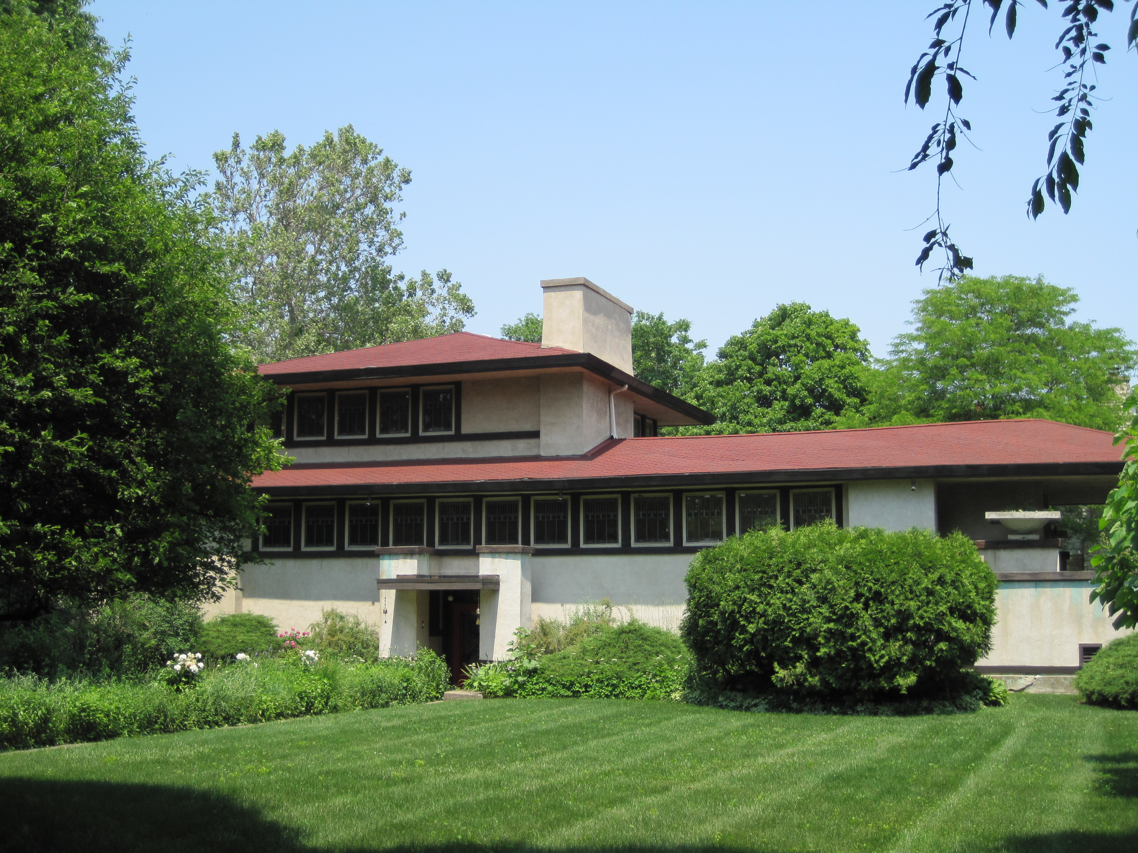 I (Teemu08 (talk)) took this image on June 7, 2011